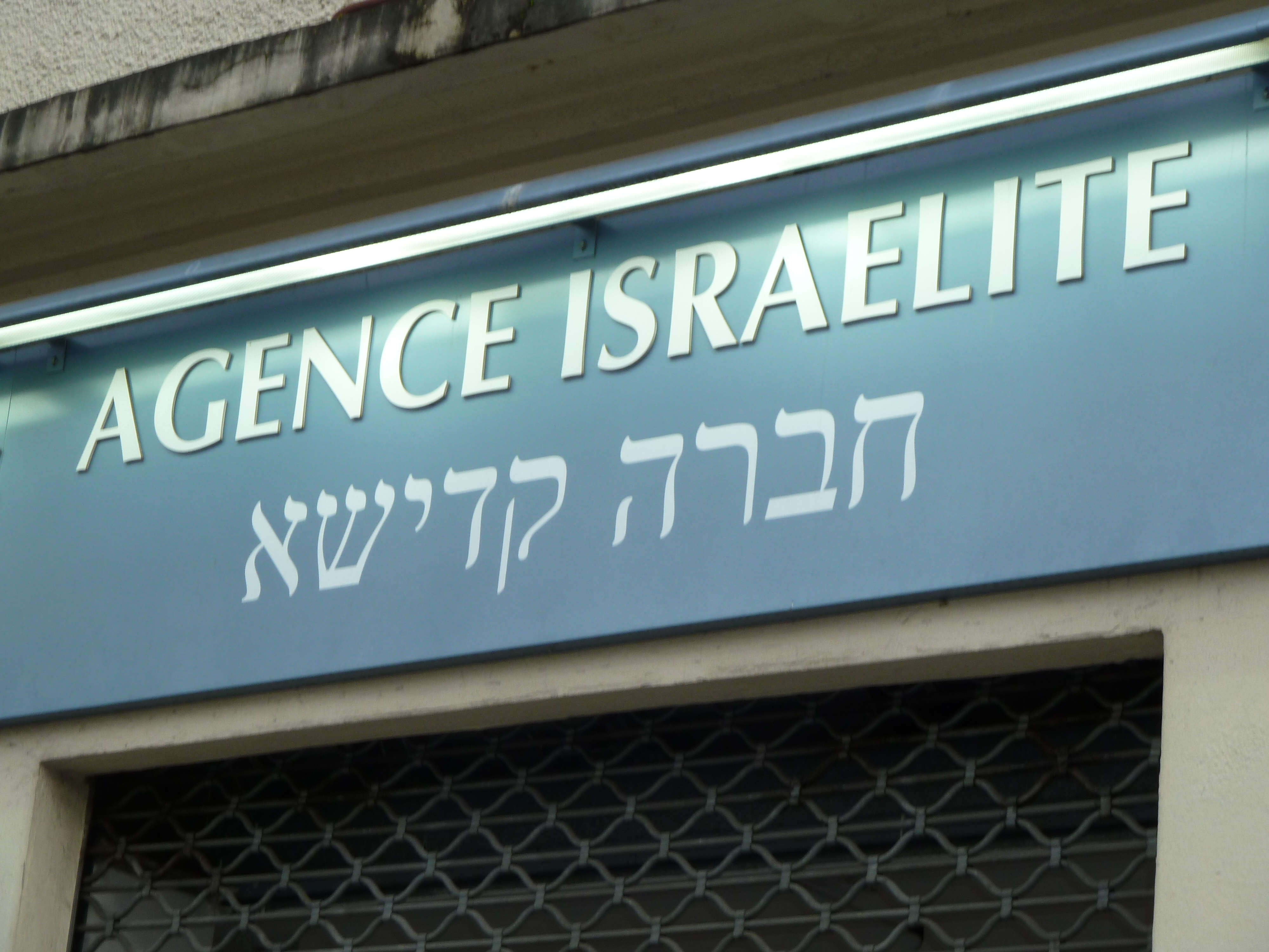 Pantin, cimetière parisien, Agence Israélite de pompes funèbres - Hebrew writing : חברה קדישא (Hevra kaddisha).